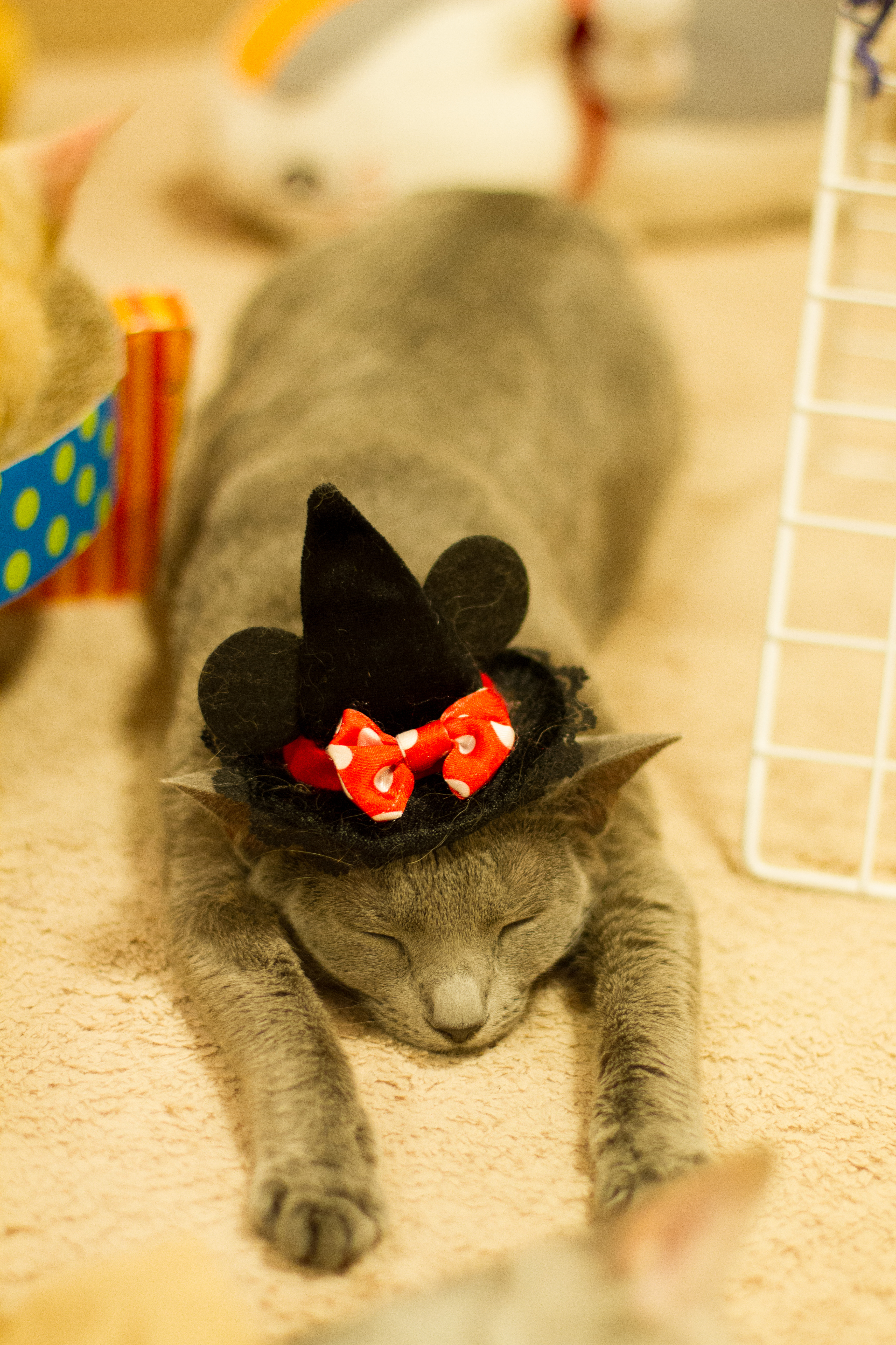 I didn't know why, but this kitty started sleeping with this pose. Someone has put the hat while she is sleeping. I bet she is flying on her dream. Info of the cat: Name: Osechi Gender: Female Kind: Russian Blue おせちちゃんはなぜか前足を前に投げ出した格好で寝ていました。寝ている間に誰かに魔女の帽子を乗せられてしまったようです。きっと、夢の中ではスーパーマンならぬ、す～ぱ～にゃんとして空を飛んでいることでしょう。 猫さん情報： 名前：おせちちゃん 性別：女の子 種類：ロシアンブルー [ Canon EOS 7D, Canon EF 50mm f/1.4 USM, f/1.8, 1/60sec, ISO800, Lightroom 4 ]